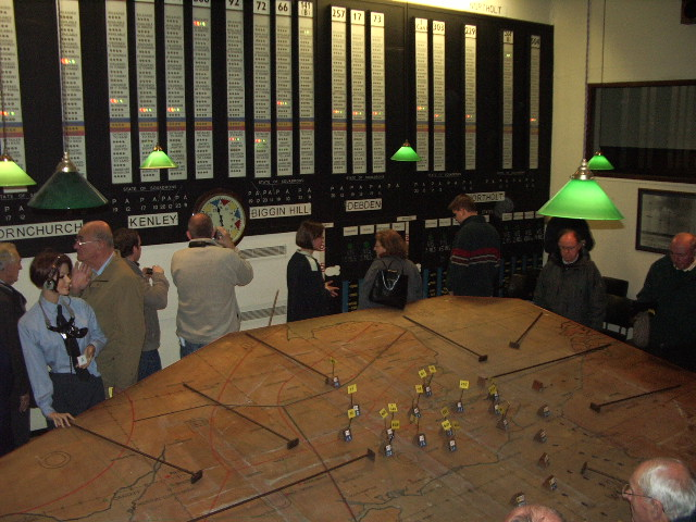 The Battle of Britain Operations room - restored - in the underground bunker at RAF Uxbridge.